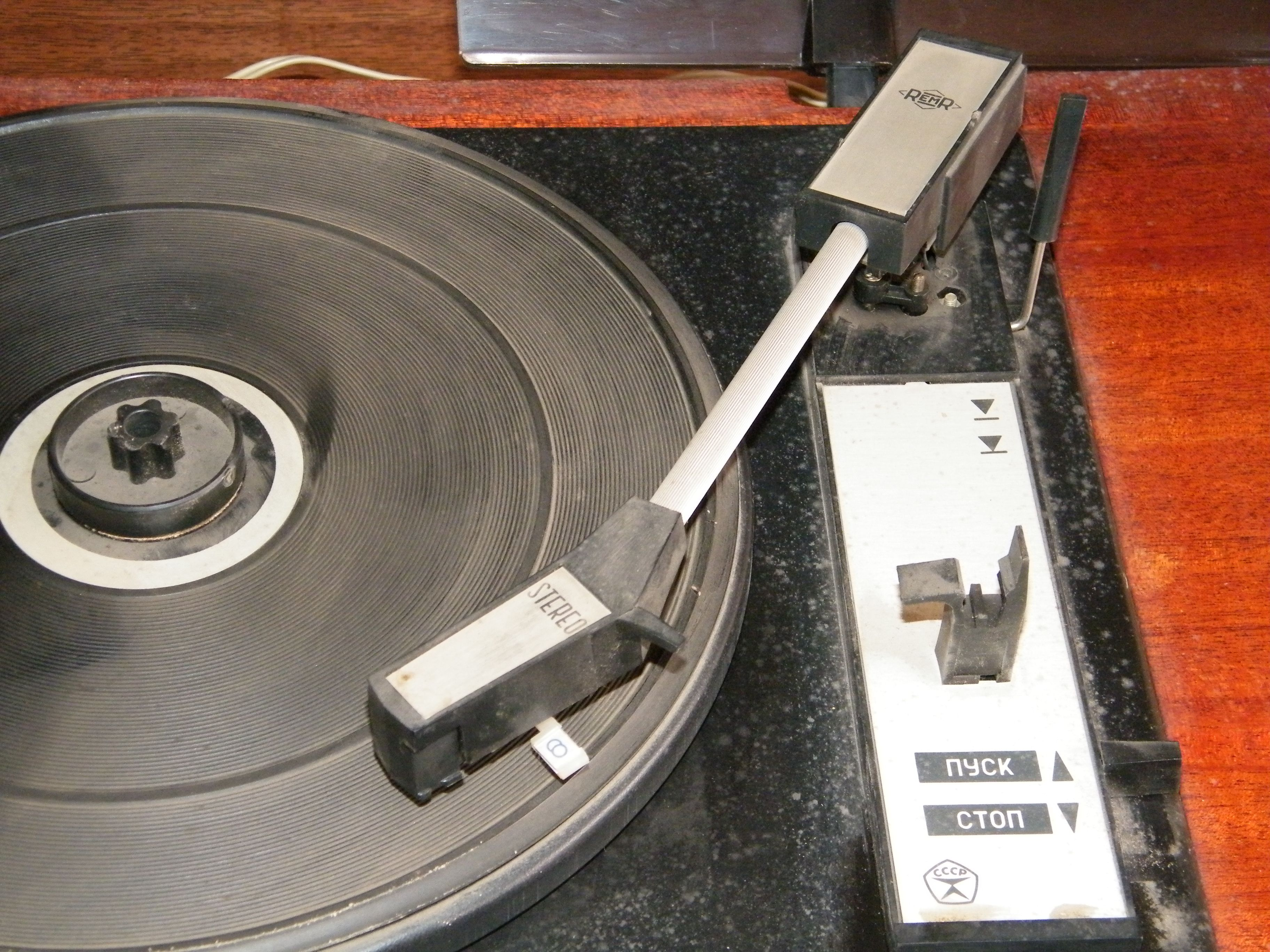 Vega 323 stereo turntable, USSR, 1970s